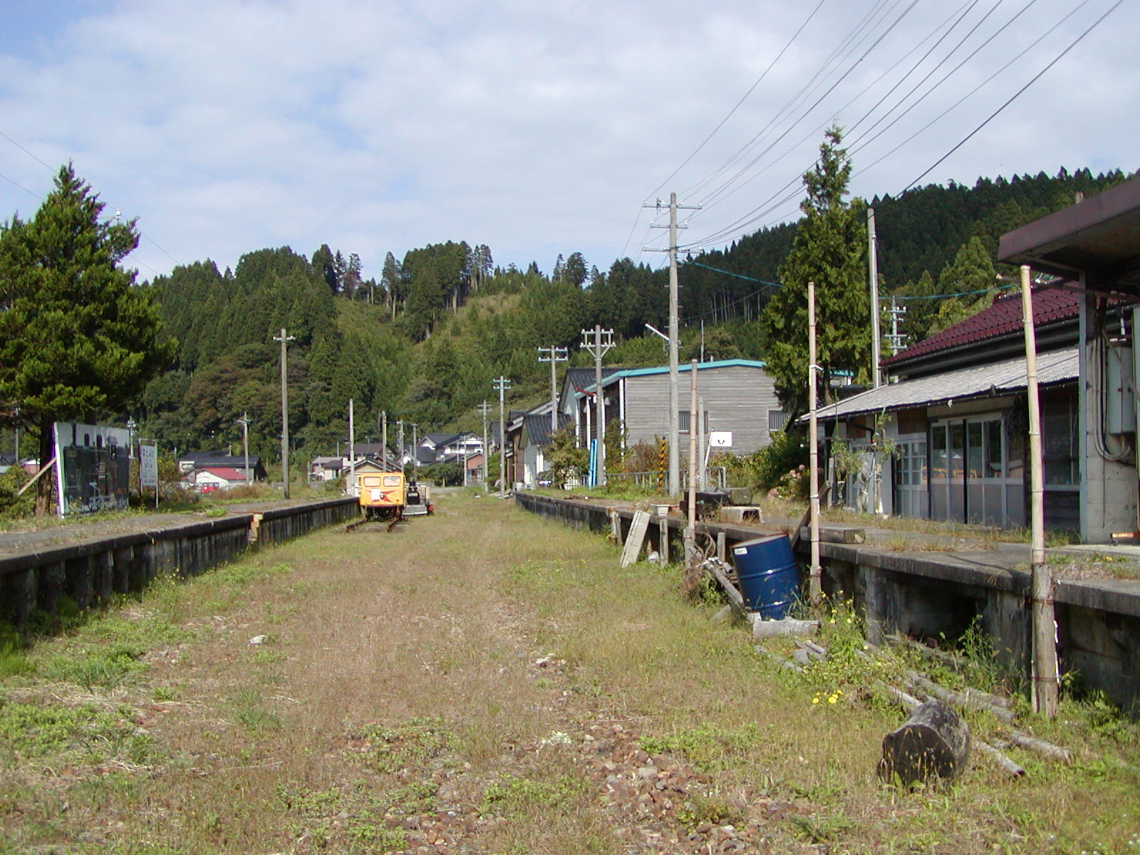 The remains of Noto-mii Station, Noto Railway on October 9, 2005.